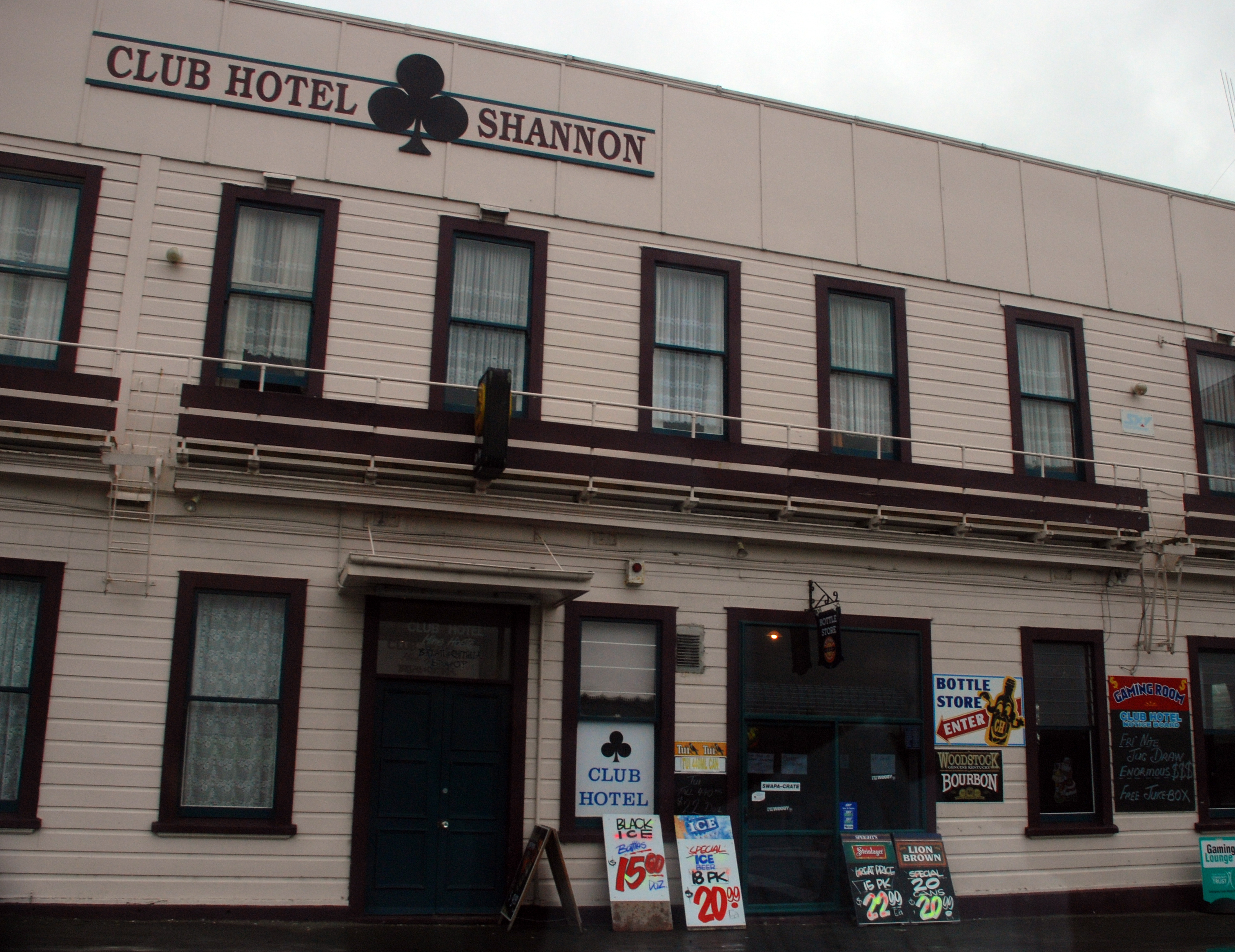 Shannon Hotel, Shannon, Manawatu, New Zealand